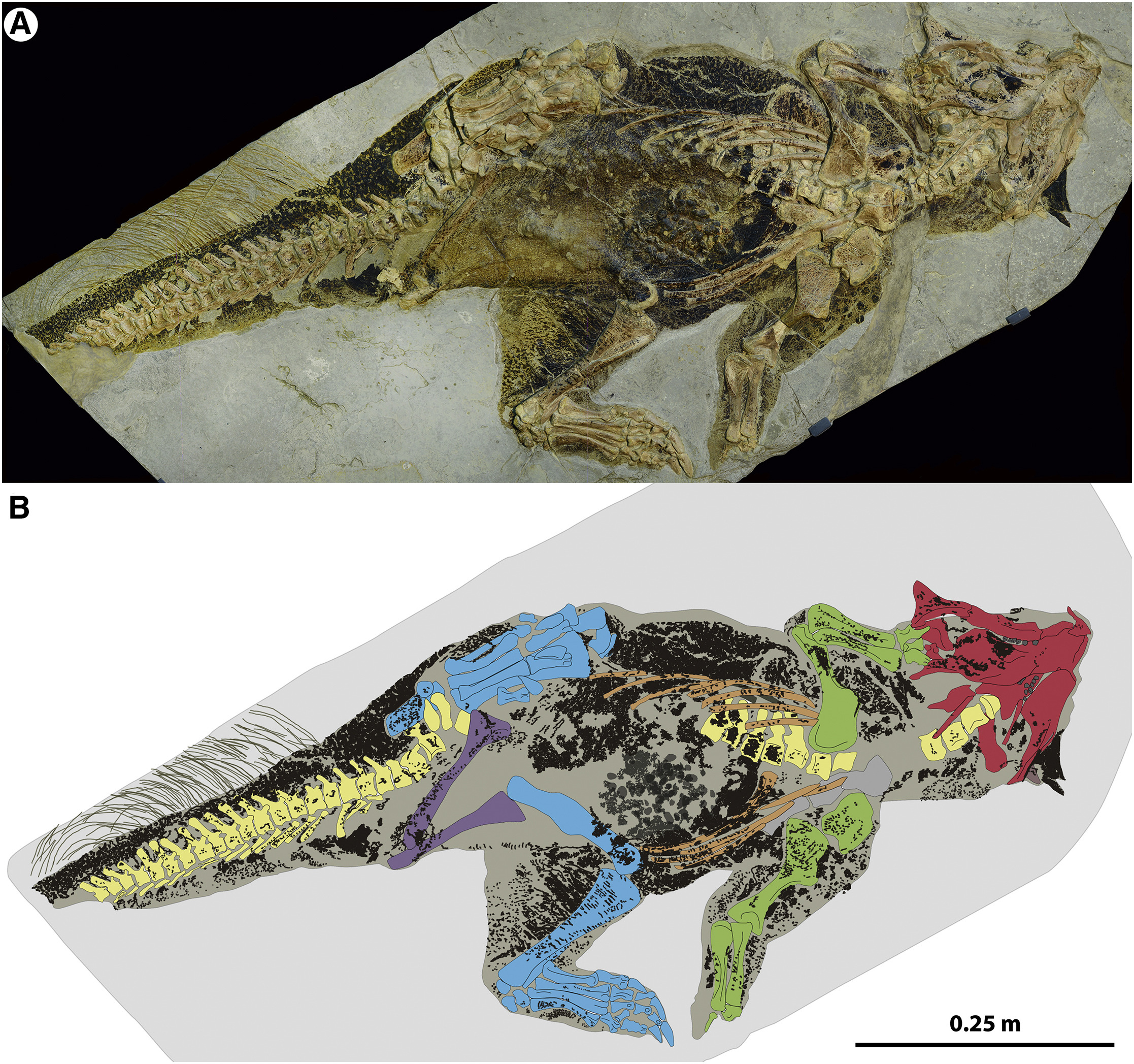 Psittacosaurus sp. SMF R 4970,Whole Specimen(A) Specimen photographed under crossedpolarized light.(B) Interpretative drawing, showing the distributionof pigment patterns, skin, and bones. Green indicatesforelimb bones, blue indicates hindlimbbones, purple indicates sacral elements, red indicatescranial elements, and buff yellow indicatesvertebral column.